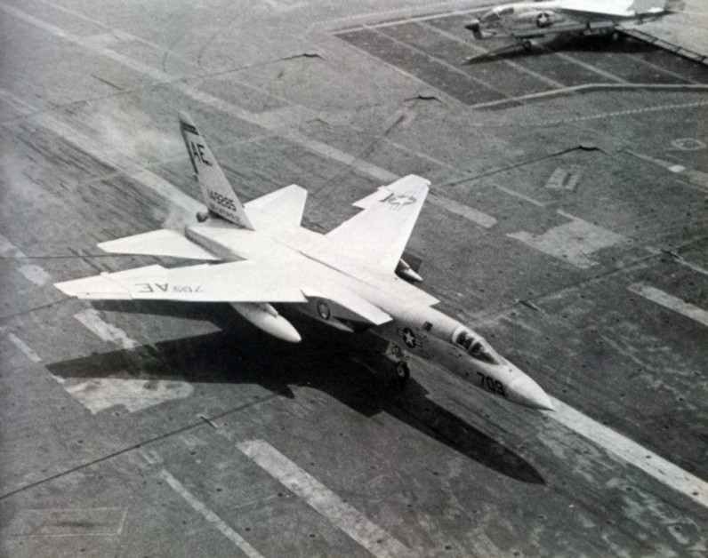 A U.S. Navy North American A-5A Vigilante bomber (BuNo 149285) from heavy attack squadron VAH-7 Peacemakers of the Fleet landing on the aircraft carrier USS Enterprise (CVAN-65) in 1963. VAH-7 was assigned to Carrier Air Group 6 (CVG-6) aboard the Big E for a deployment to the Mediterranean Sea from 6 February to 4 September 1963. The aircraft was later converted to an RA-5C reconnaissance plane and crashed on 21 May 1966 while in service with heavy reconnaissance squadron RVAH-5 Savage Sons aboard the USS America (CVA-66). The crew could eject.